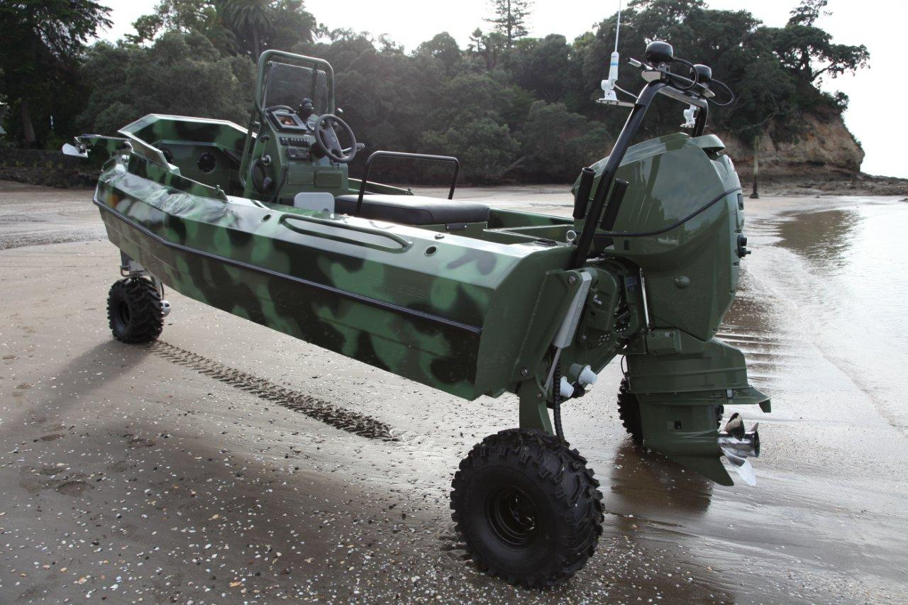 Sealegs D-tube camo